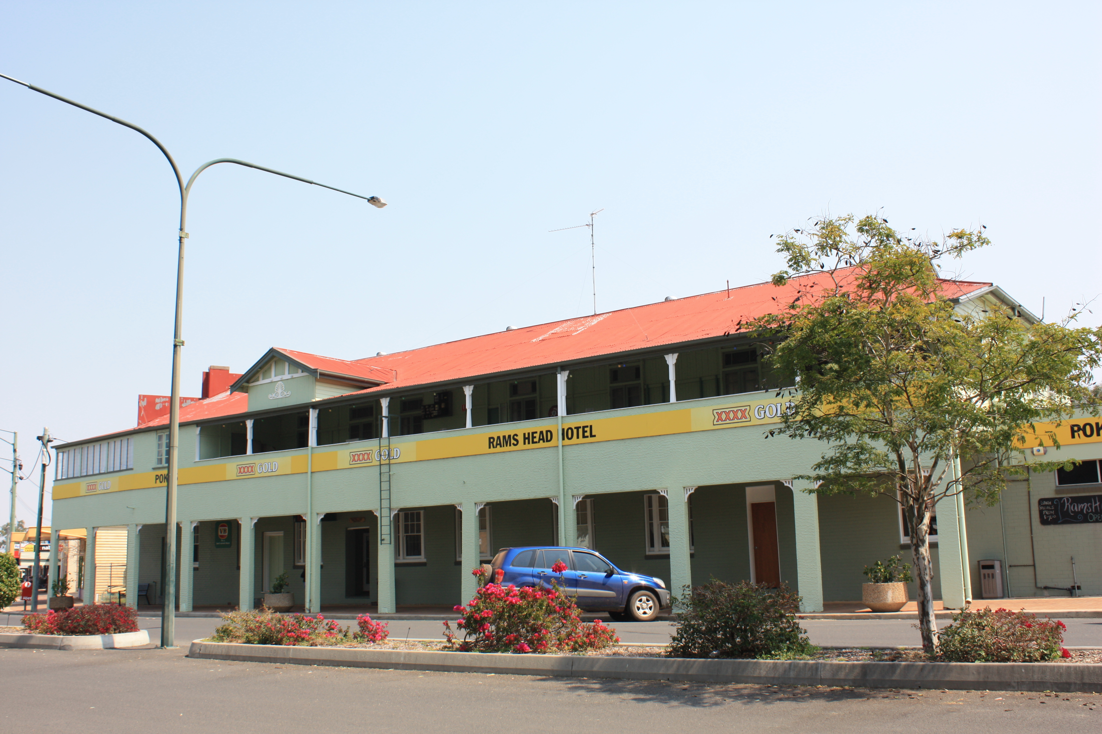 1 Campbell Street, Millmerran. Currently for sale.